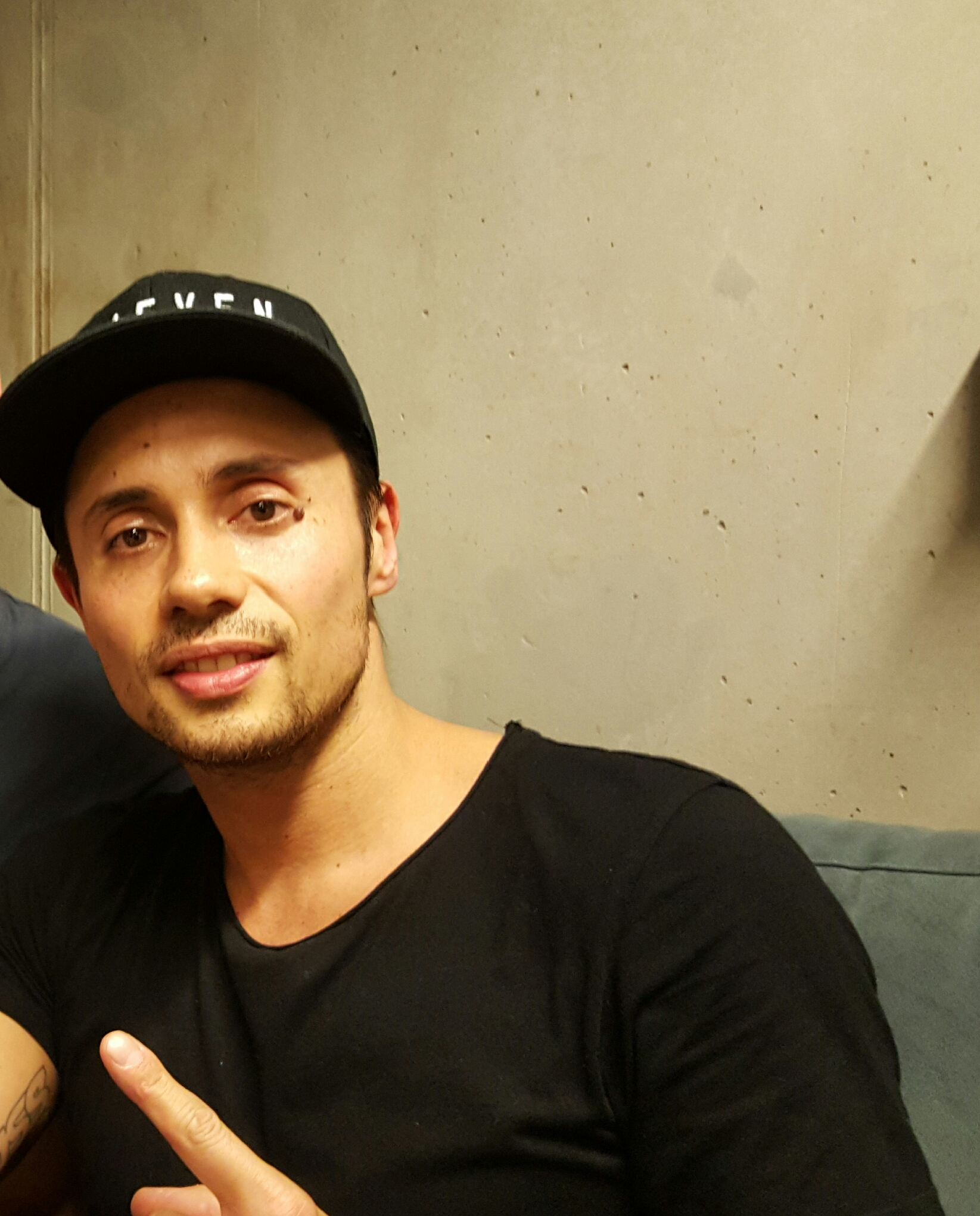 member Marlon Flohr at an interview at Neuraum in Munich